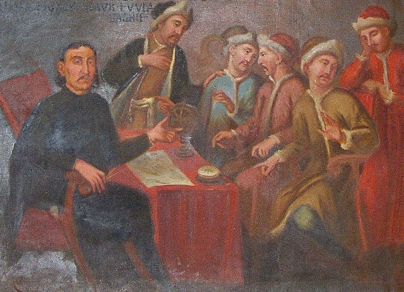 Captain Marko Martinovic